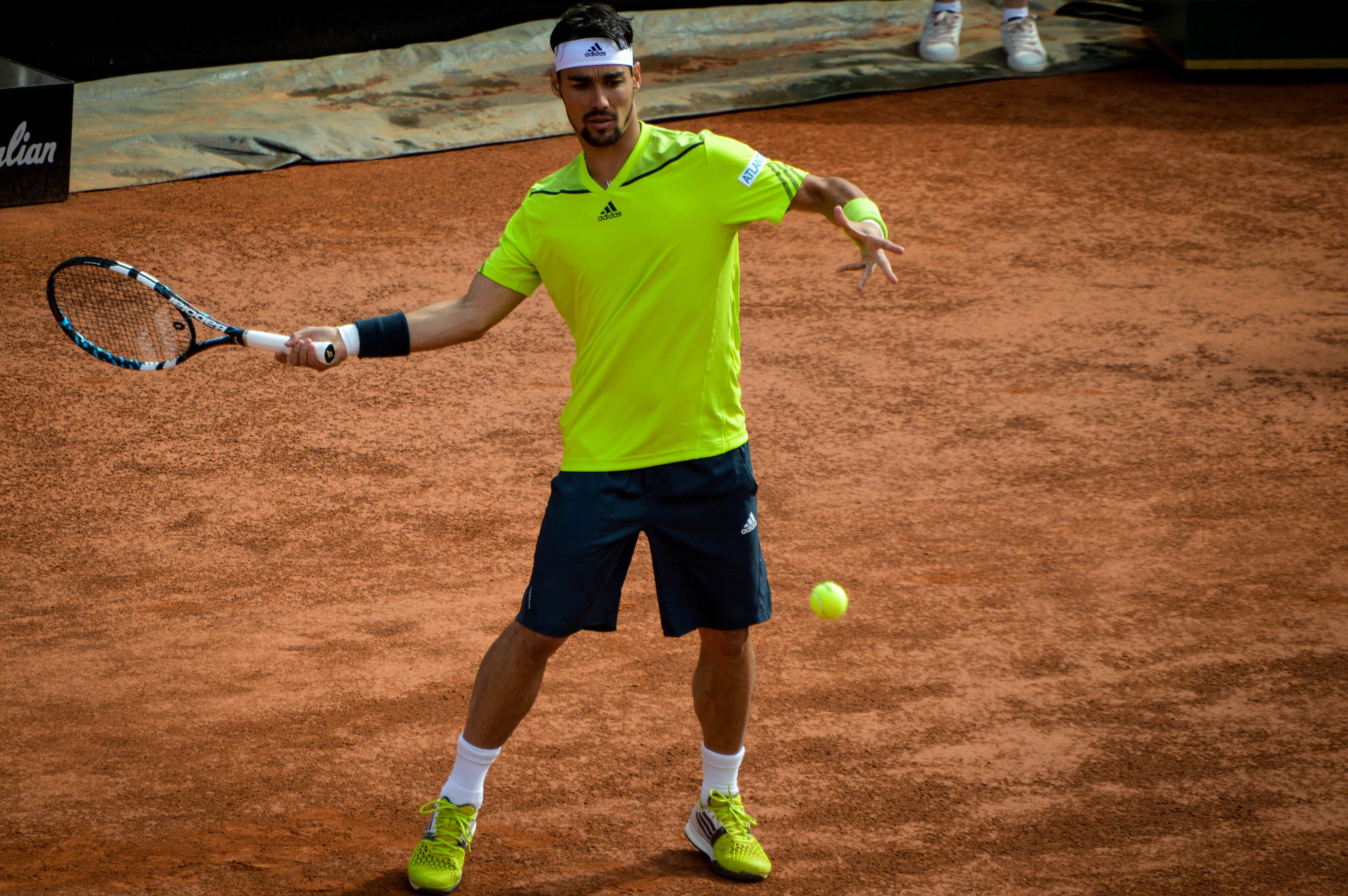 Fabio Fognini in action at the 2014 Italian Open